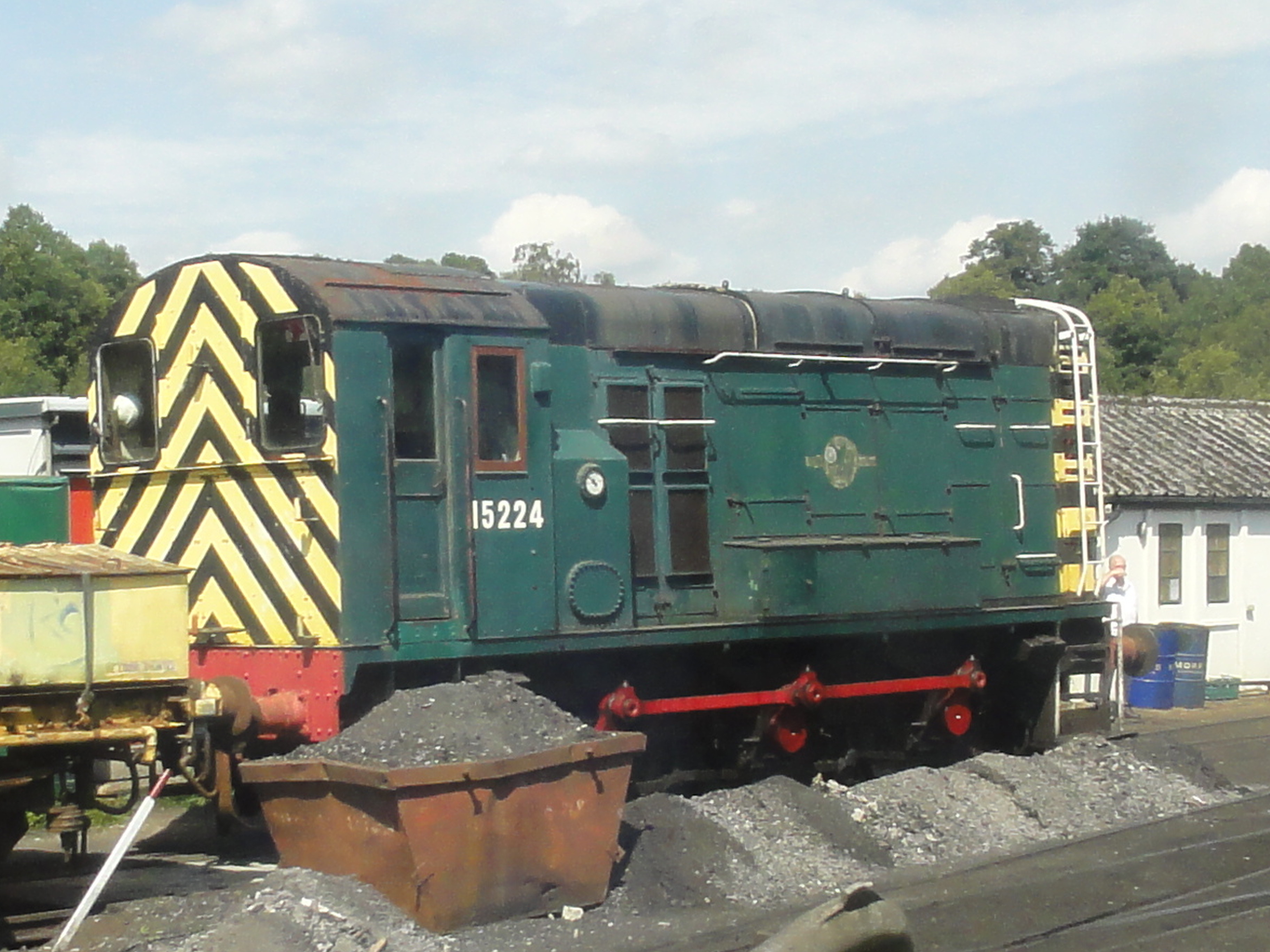 15224 at Spa Valley Railway, Tunbridge Wells West depot 31 July, 2011